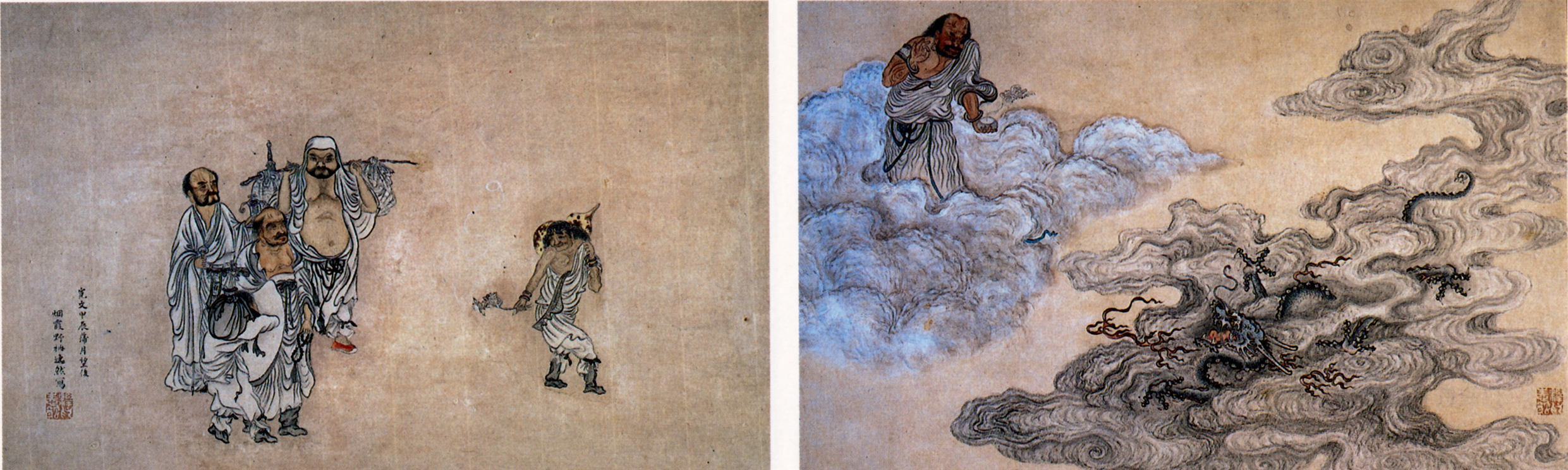 Arhat Enjoying,Yiran,alubum,color on paper